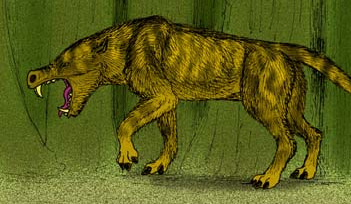 Life restoration of Sinonyx